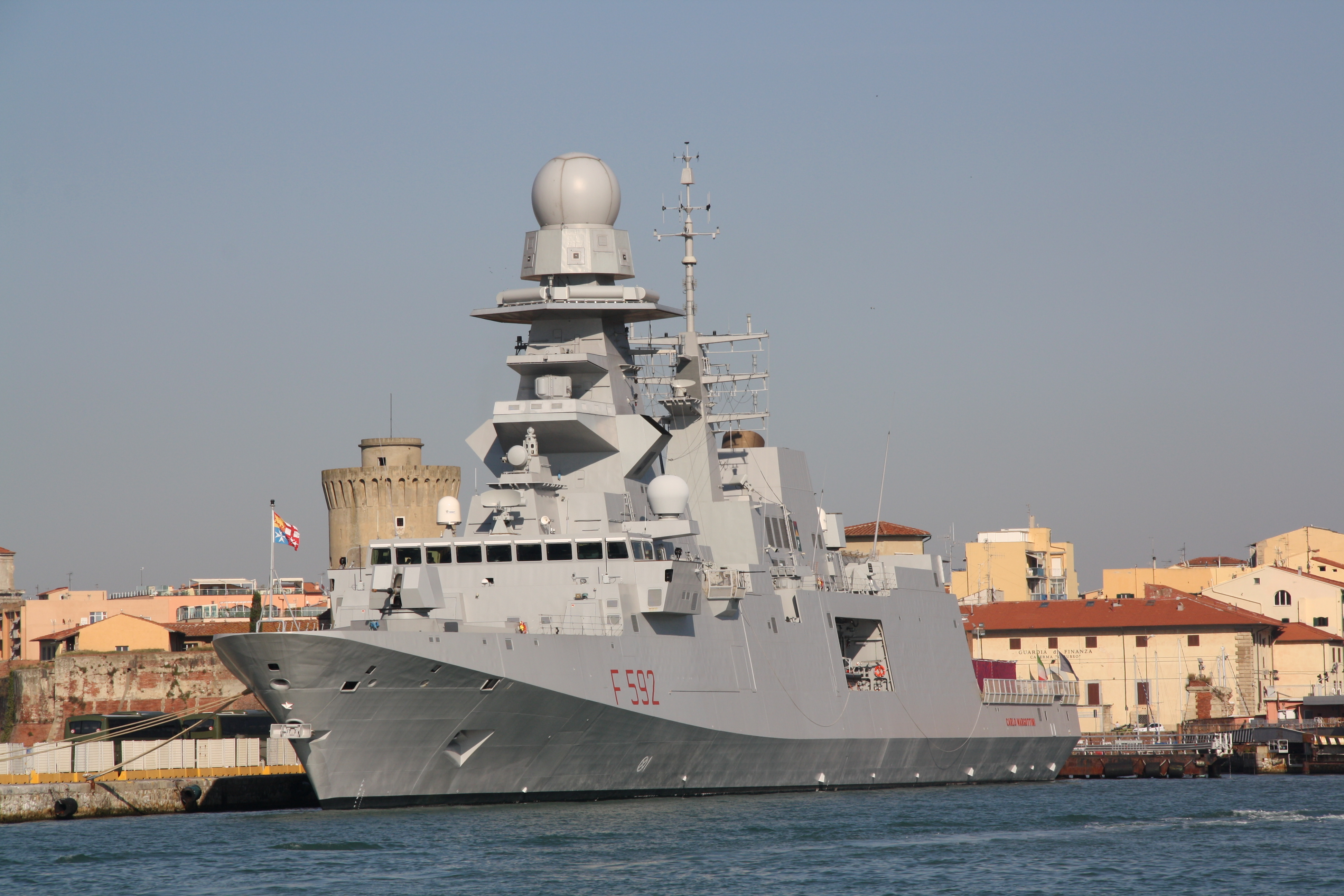 Italy Navy: Marina Militare Pennant number: F 592 Type: Frigate Launch date: June 29, 2013 Shipyard: Fincantieri, Riva Trigoso Displacement: 6700 t Length overall: 144 m Beam: 19.40 m Draft: 8.40 m Main engine: CODLAG, 1 gas turbine Avio-GE LM2500 G4 plus 32 MW, 2 electric engines JEUMONT 2,1 MW Speed: 27 knots Crew: 167 The ship Carlo Margottini is the third unit of FREMM multipurpose frigate and the second as Anti Submarine Warfare configuration. The ship entered in service on February 27, 2014 with the 2nd Command Naval Group.